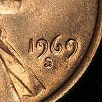 1969-S Double Die Lincoln Cent